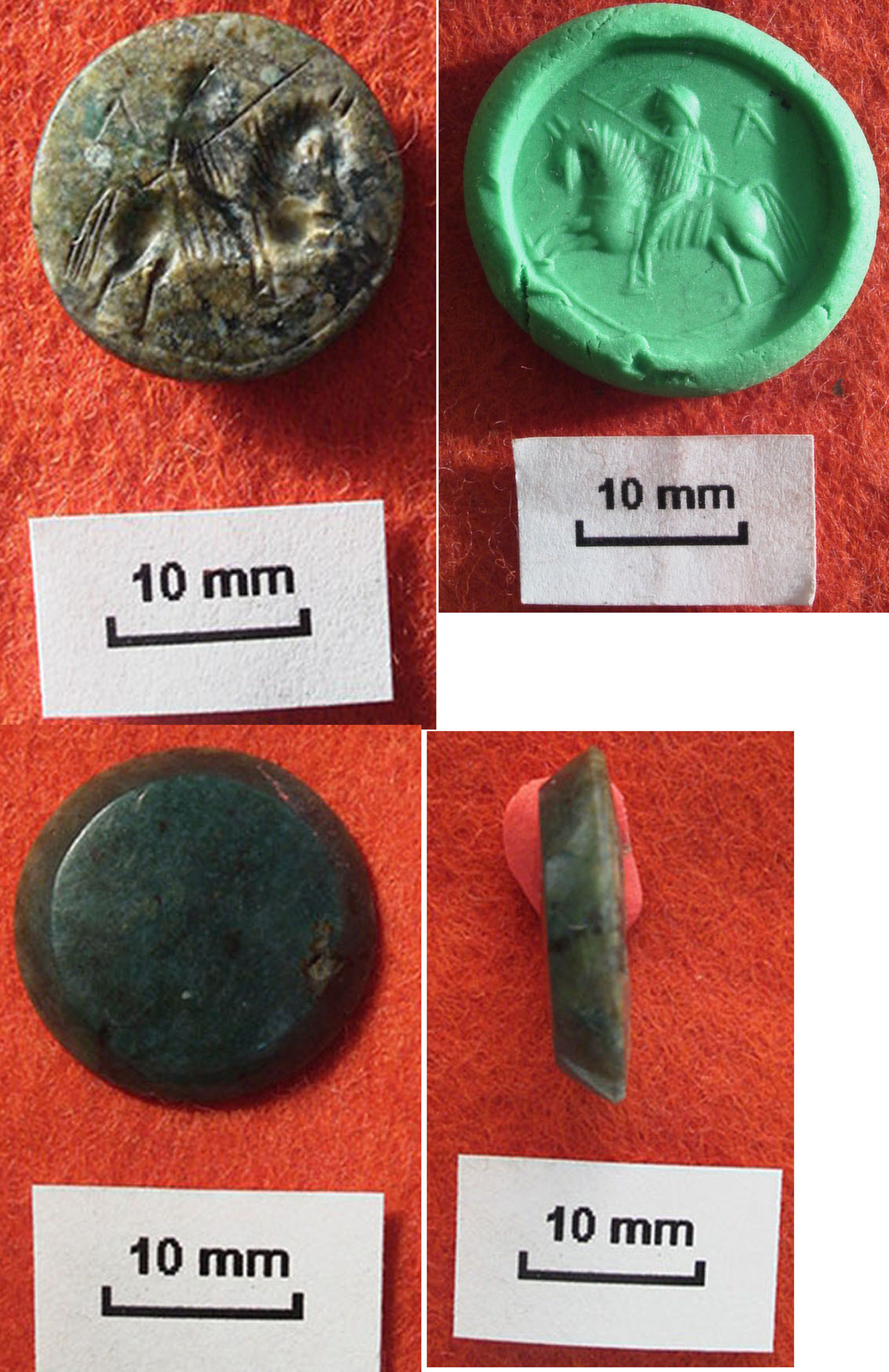 Ancient Intaglios. From Portable Antiquities Scheme image collection. This was added from the photo-site — user’s site: portableantiquities’ photostream — set: Annual report 2001—2003 Set — image: see "Source" below.